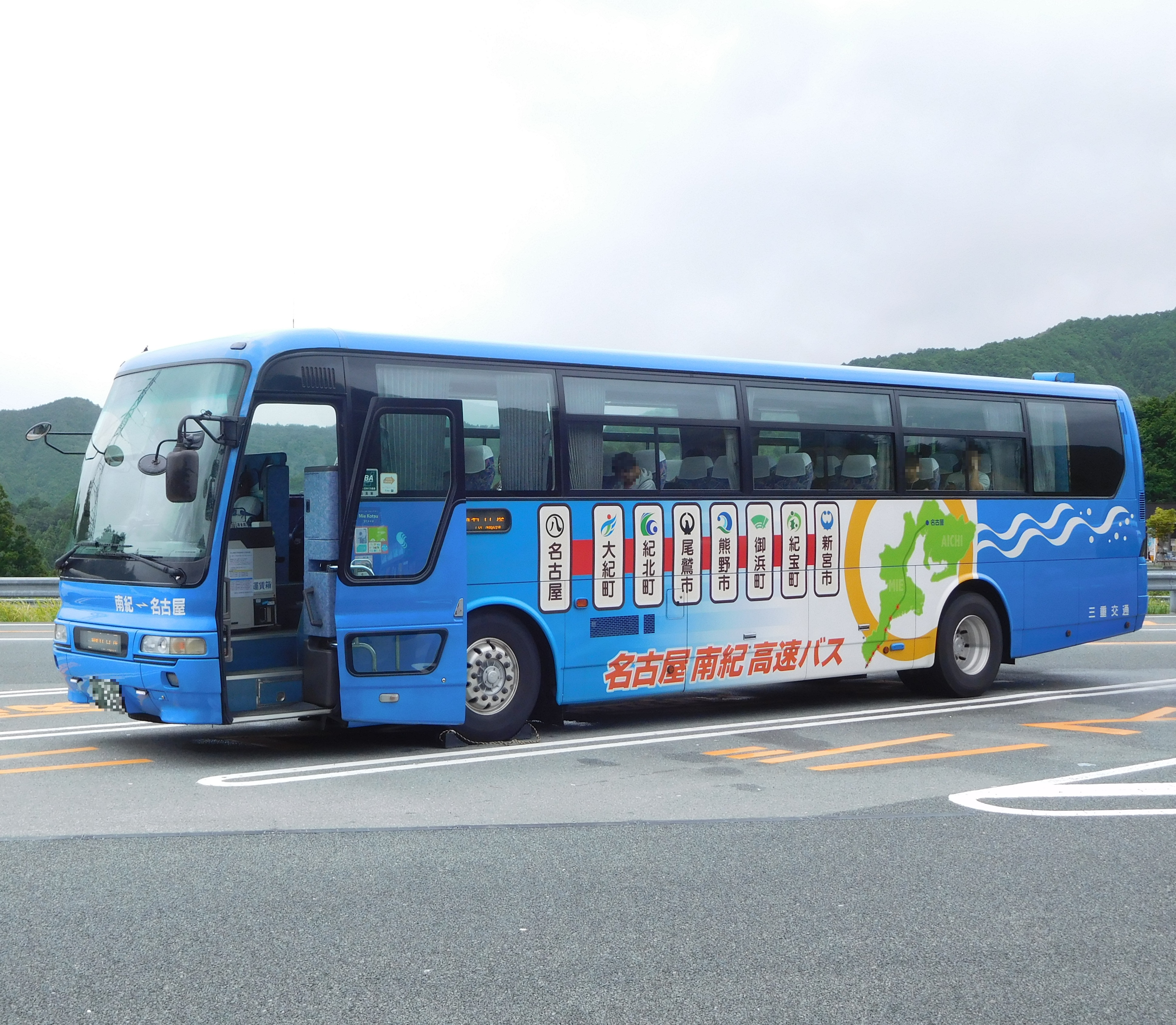 This is Nagoya-Nanki Express Bus operated by Mie Kotsu. It was taken in Oku-Ise Parking Area, Odai, Mie, Japan.